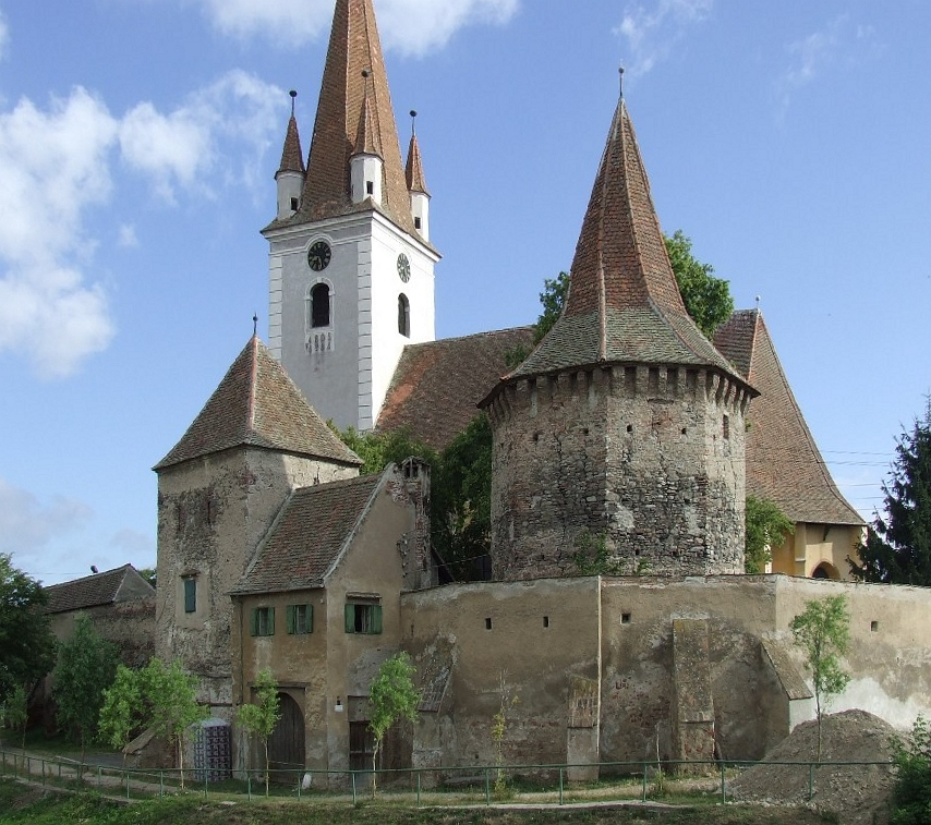 View from the village Cristian in Sibiu County, Romania